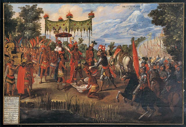 Unknown artists "The Meeting of Cortés and Montezuma," from the Conquest of Mexico series Mexico, second half of seventeenth century Oil on canvas Jay I. Kislak Collection Rare Book and Special Collections Division (26.1) 47 ¼ x 78 ¾ in. (120 x 200 cm.)